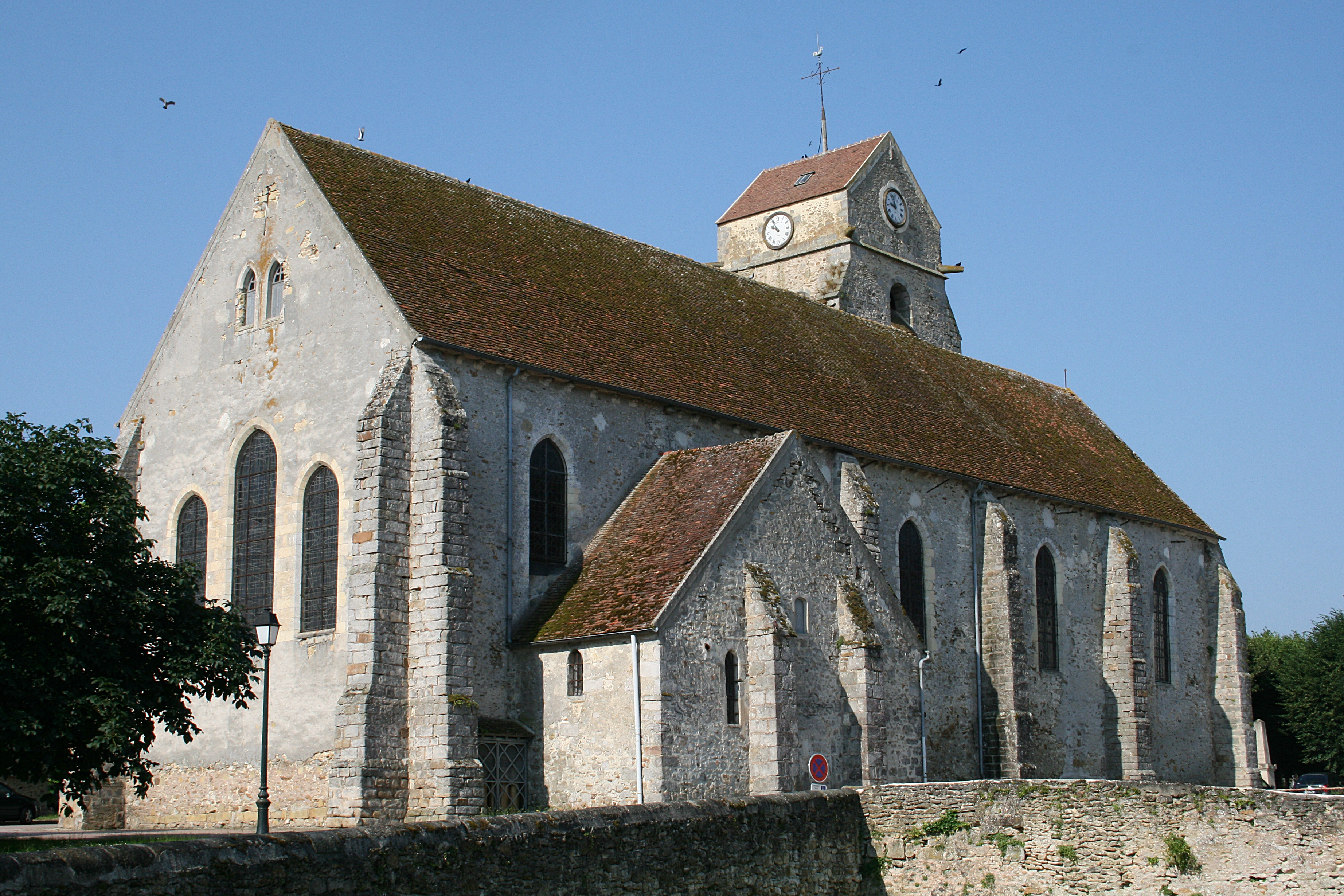 La Chapelle-Gauthier (Seine-et-Marne), Saint-Martin-et-Sainte-Catherine church (13th century).